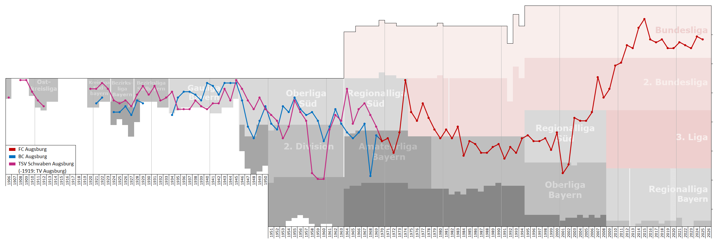 Chart of end-season table positions of FC Augsburg in the football league system of Germany. Data source: RSSSF, wikipedia, f-archiv.de, fussball.de